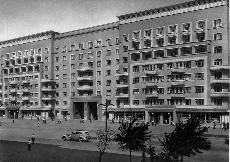 Moscow, housing, Schosse Entuziastov; Architect: Orlov; Year: 1938